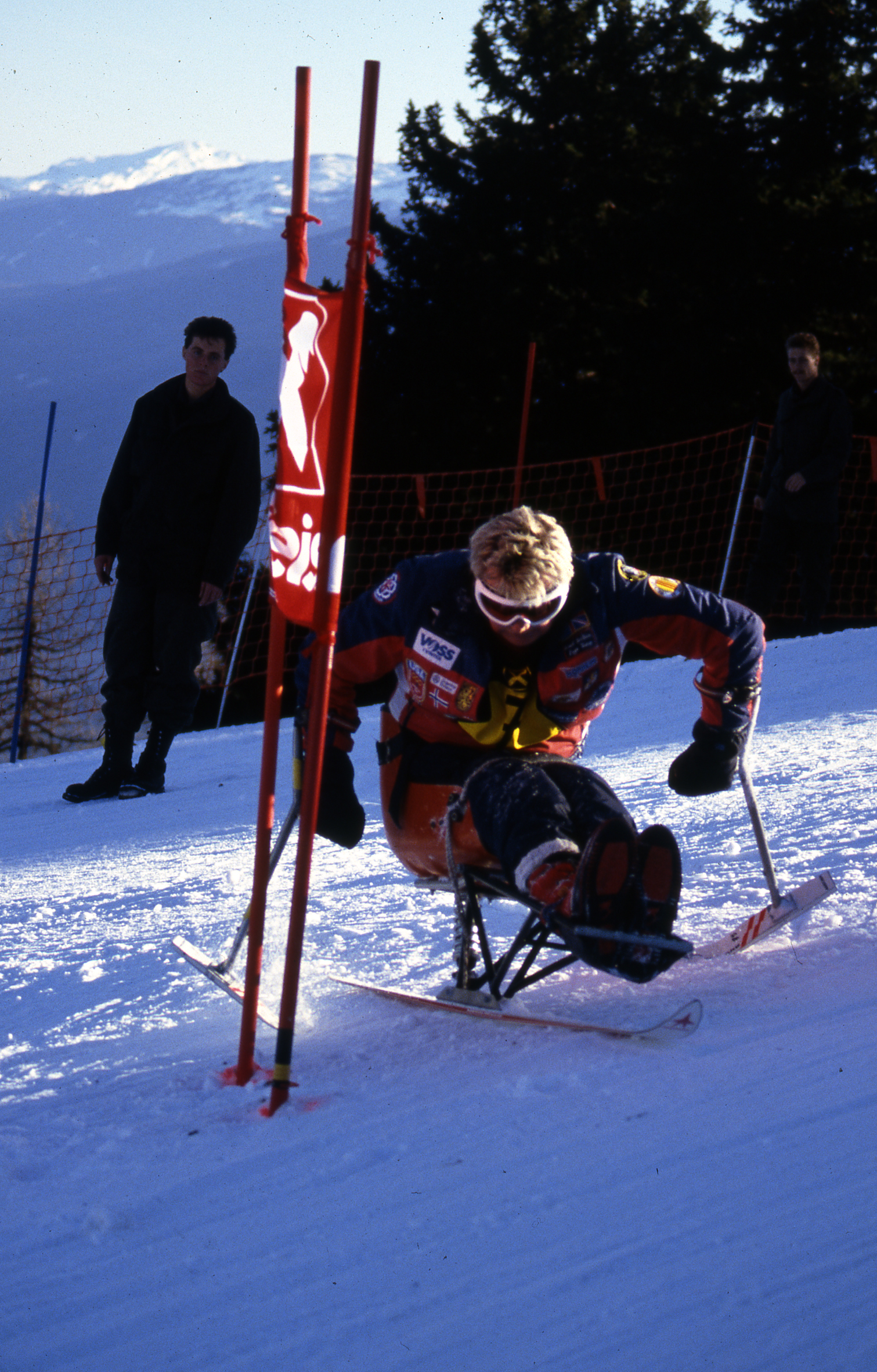 A Norwegian sitting skier